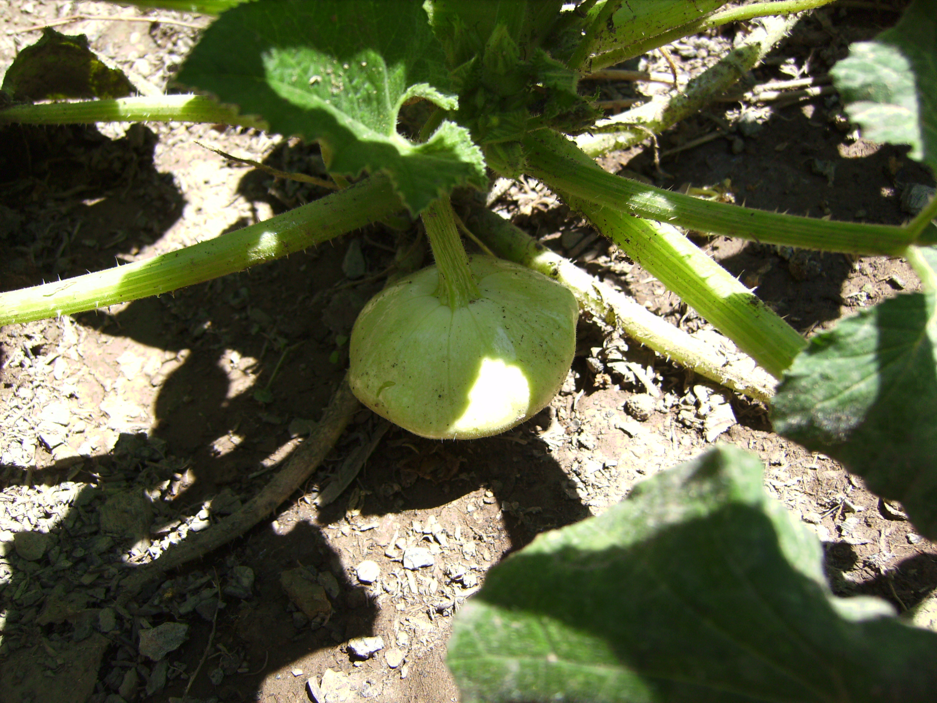 Pattypan squash (Cucurbita pepo var. ovifera) growing at Castelltallat,Catalonia